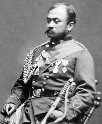 John Makini Kapena as a member of the Reciprocity Commission which went at Washington in 1875 to secure a Reciprocity Treaty between Hawaii and the United States. Photograph taken in 1874 by Bradley & Rulofson, San Francisco.